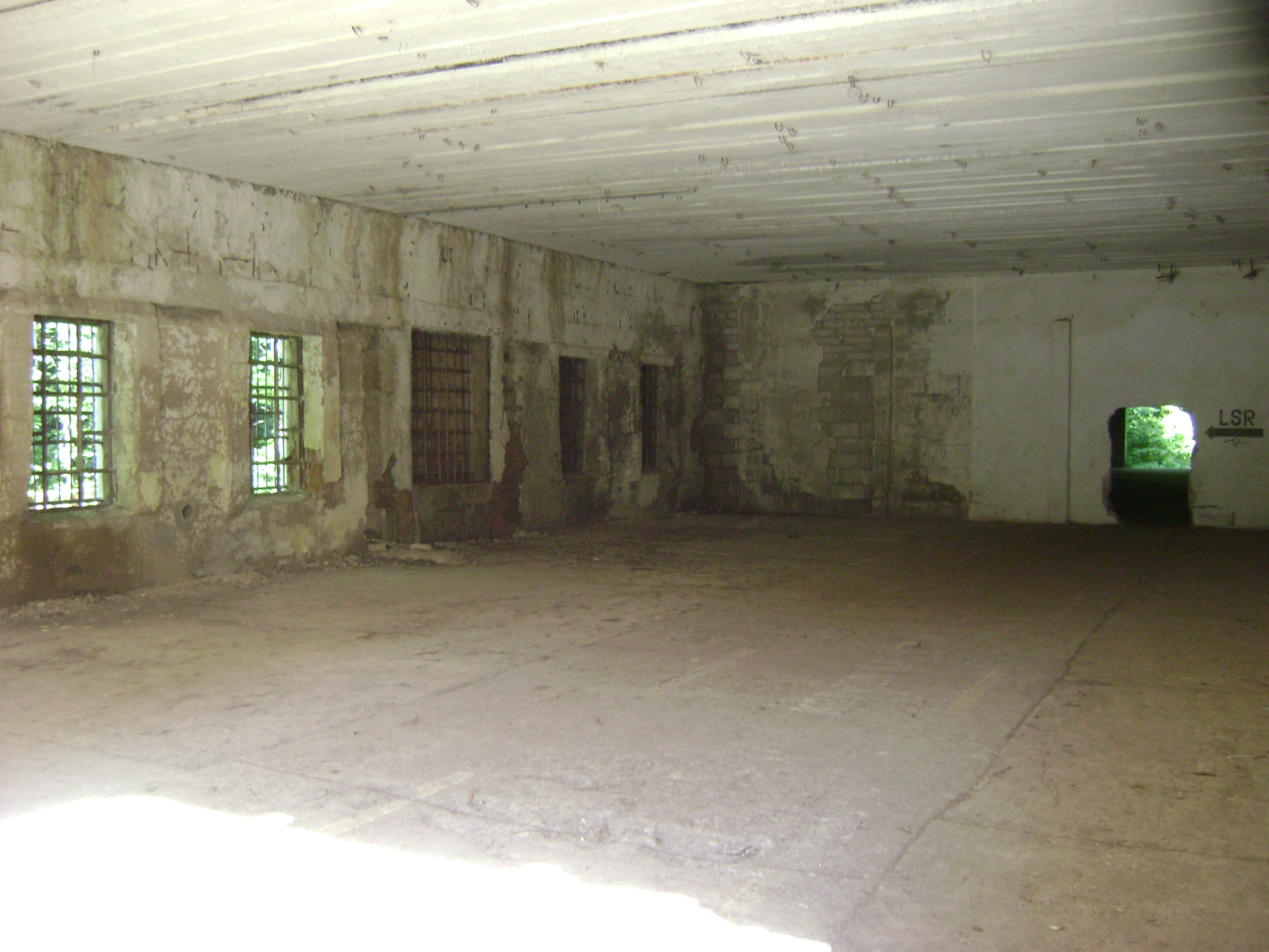 Poland. Kętrzyn. Gierłoż. Wolf's Lair.